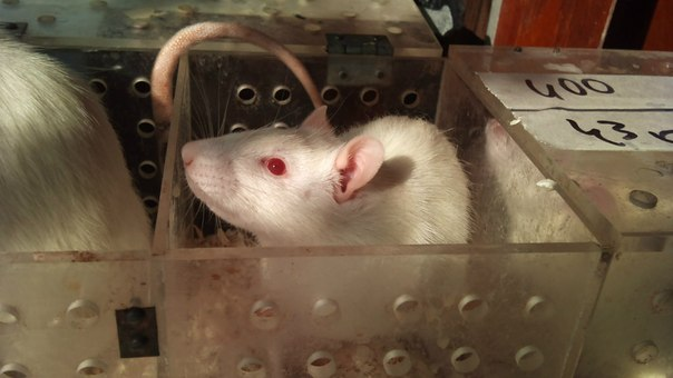 Using drug discrimination assay rats were trained to discriminate antidepressant amitriptyline from saline solution in Skinner box.